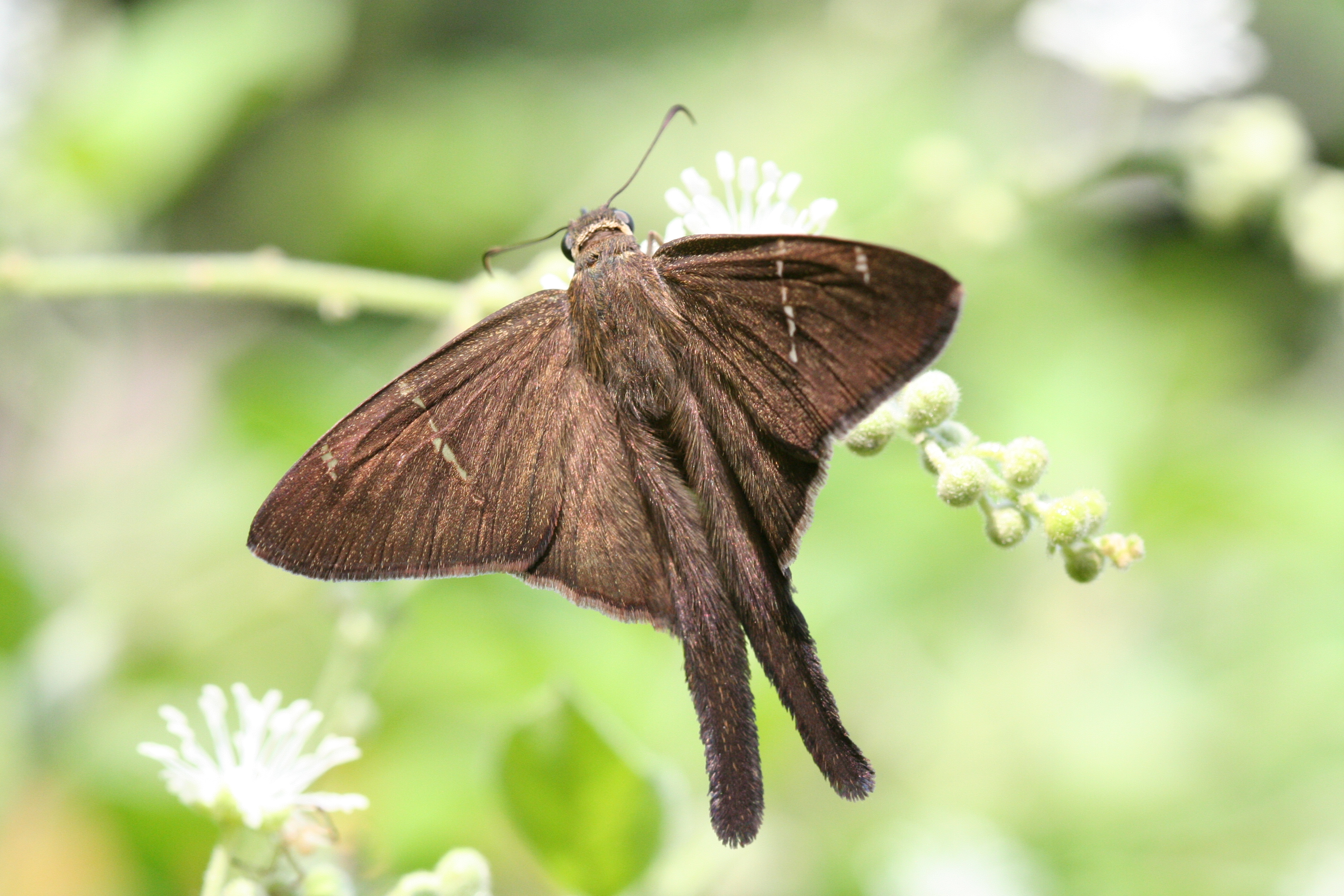 Brown longtail (Urbanus procne)